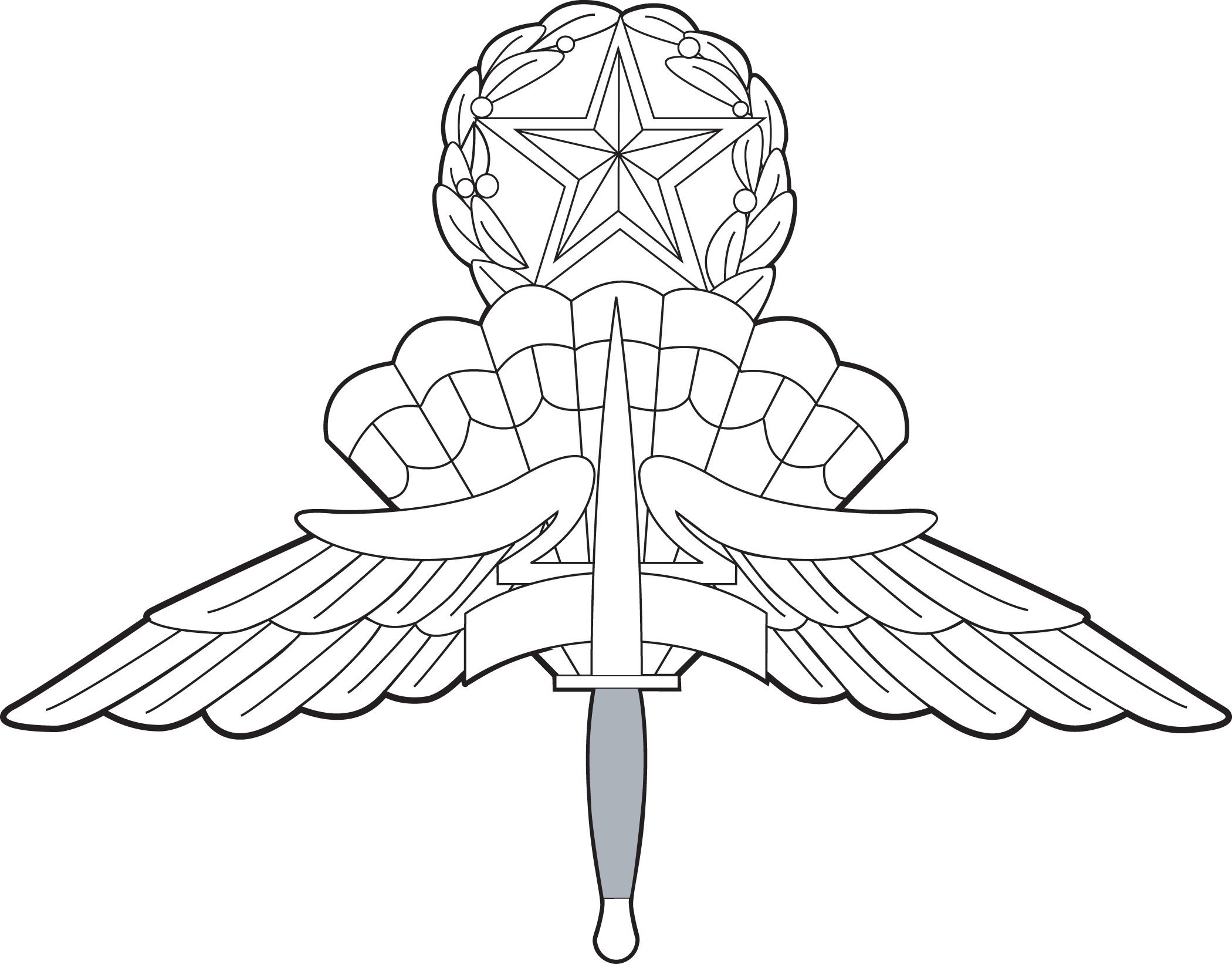 Graphic of the U.S. Air Force and U.S. Army Master Military Freefall Parachutist Badge